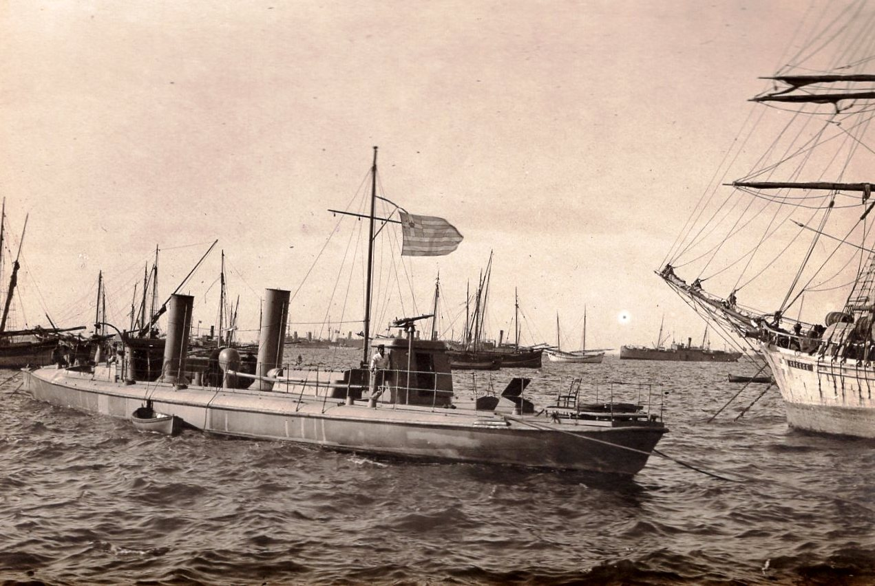 Greek torpedo ship in Thessaloniki This media file is produced by Wikipedian in Residence in Category:Wikipedian in Residence at DARM in 2016.